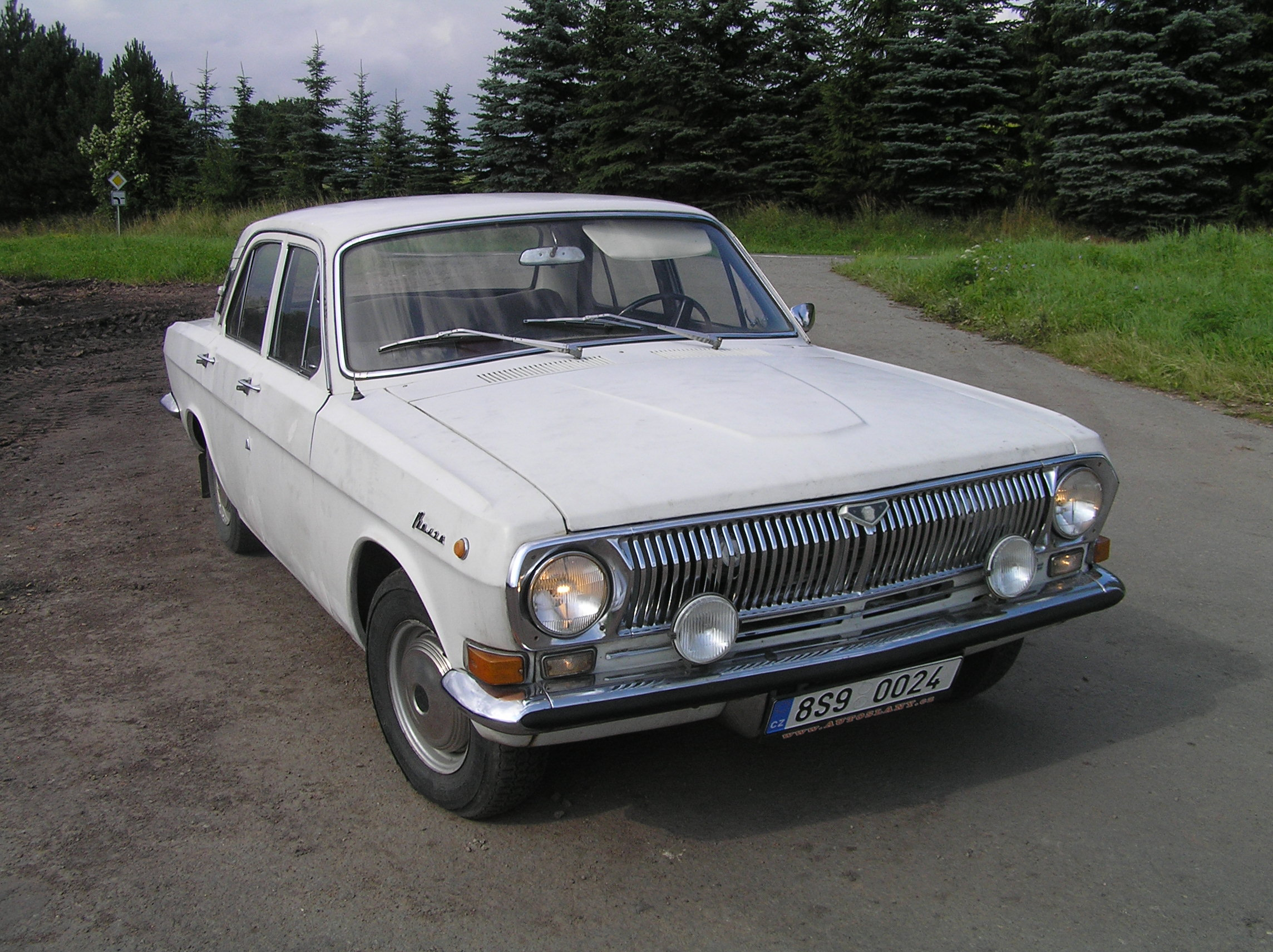 Volga GAZ-24